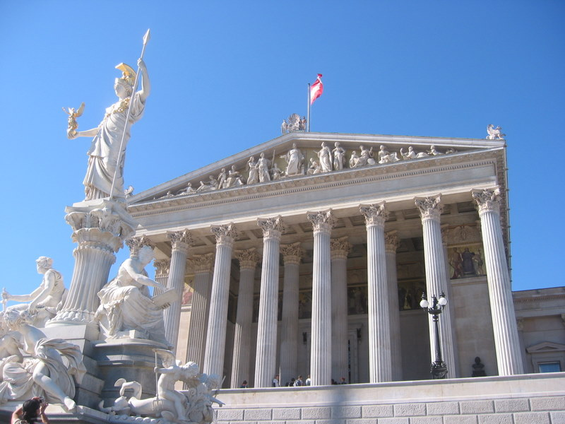 Austria, Vienna, Austrian Parliament Building